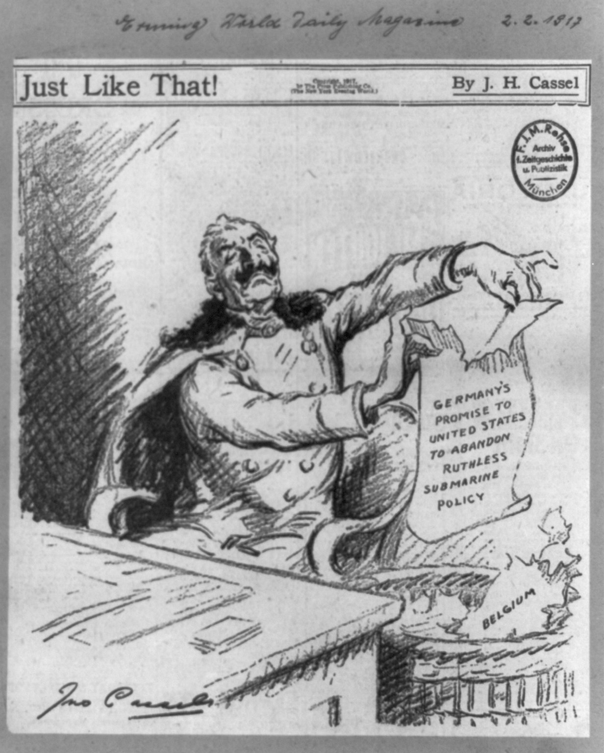 Title: Just like that! Abstract/medium: 1 print.